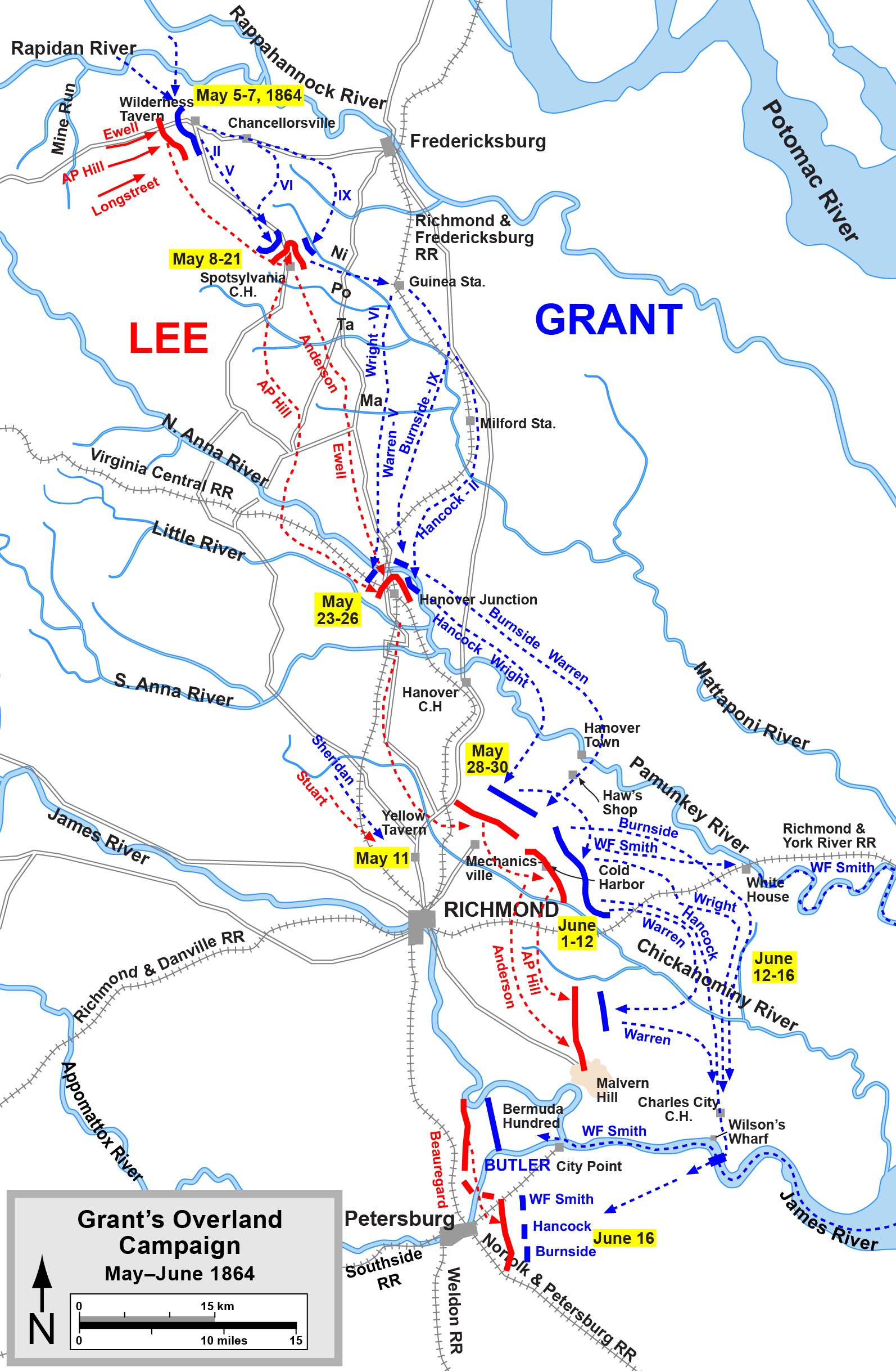 Overland Campaign